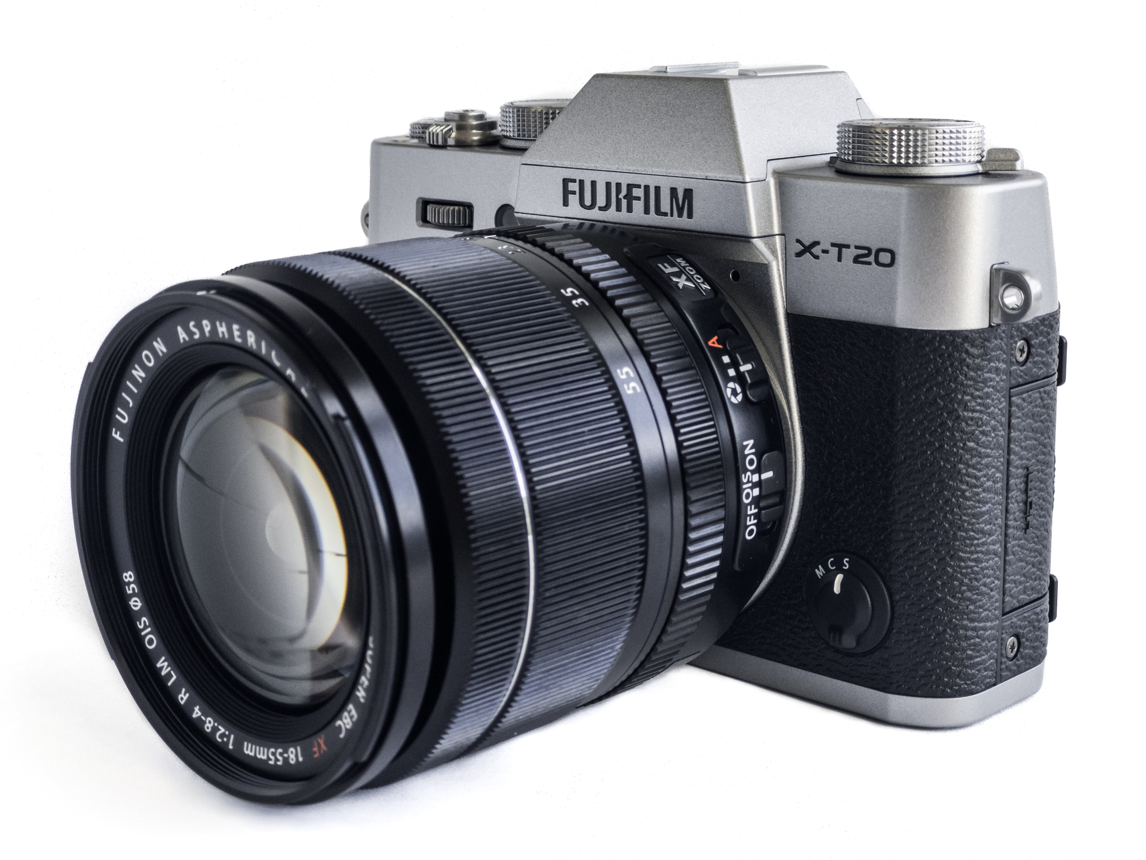 Fujifilm X-T20 with XF18-55mm F2.8-4 R LM OIS lens